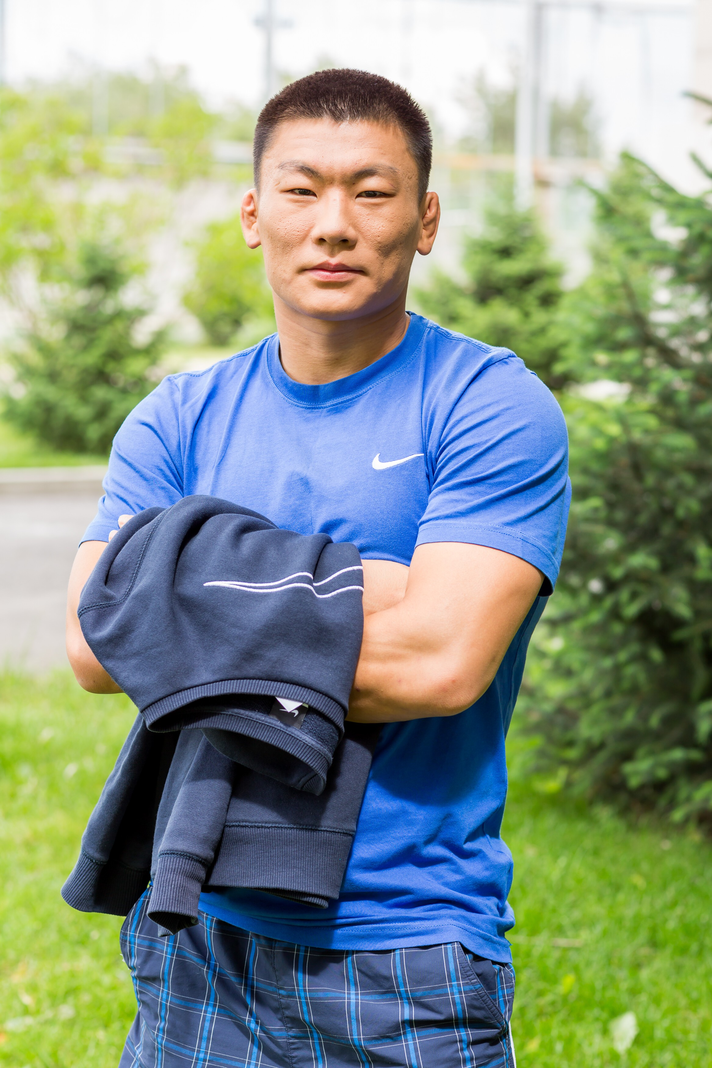 Famous Kazakh athlete - judoka Sergey Lim, Asian champion in 2012, winner of the tournament "World Masters"-2013.